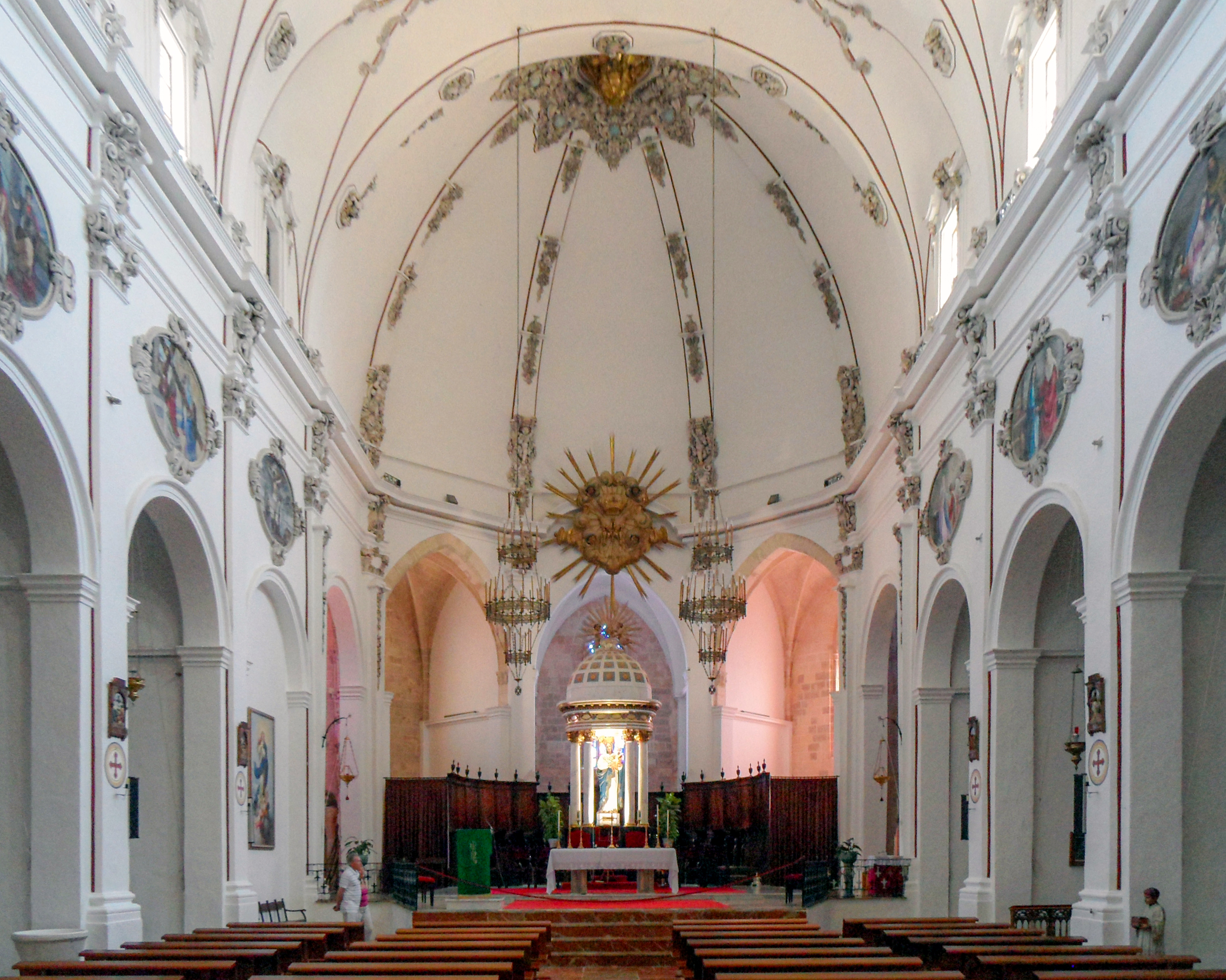 Ibiza's Cathedral (inside)